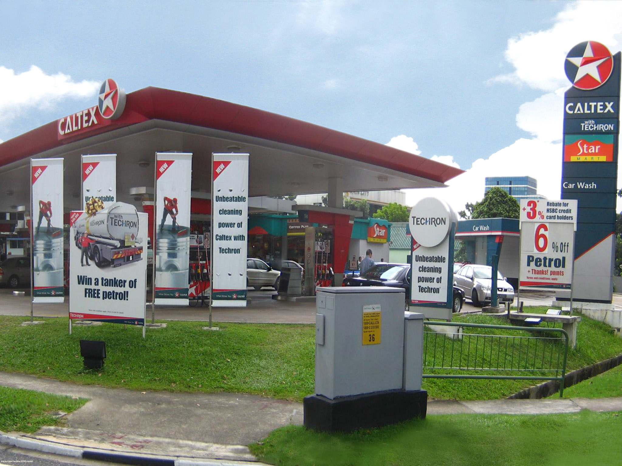 Caltex Petrol Station Ang Mo Kio, Singapore Img by Calvin Teo, May 2006